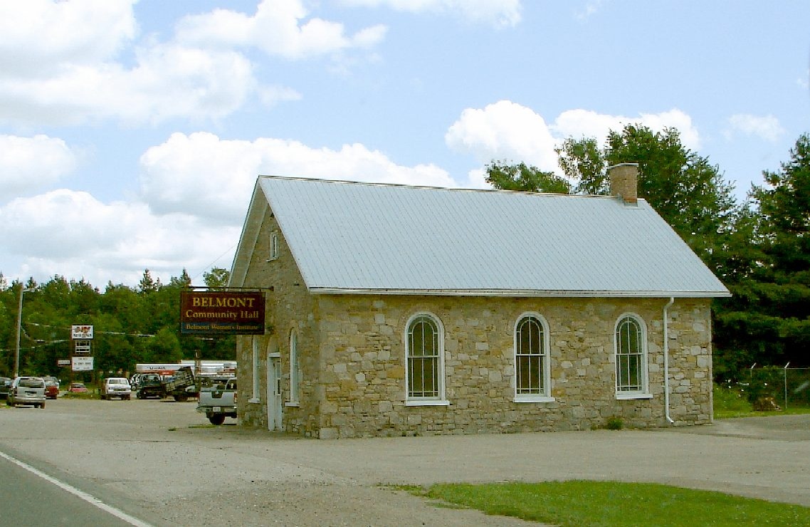 Belmont community hall (Havelock-Belmont-Methuen Township), Ontario, Canada